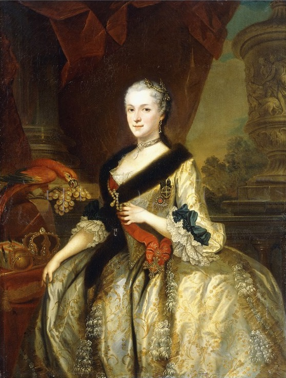 Alleged portrait of the Princess Maria Josepha the Younger of Saxon, overpainted on a portrait of Maria Josepha the Elder of Saxony, Queen of Poland (overpainted condition between 1892 and 1992)